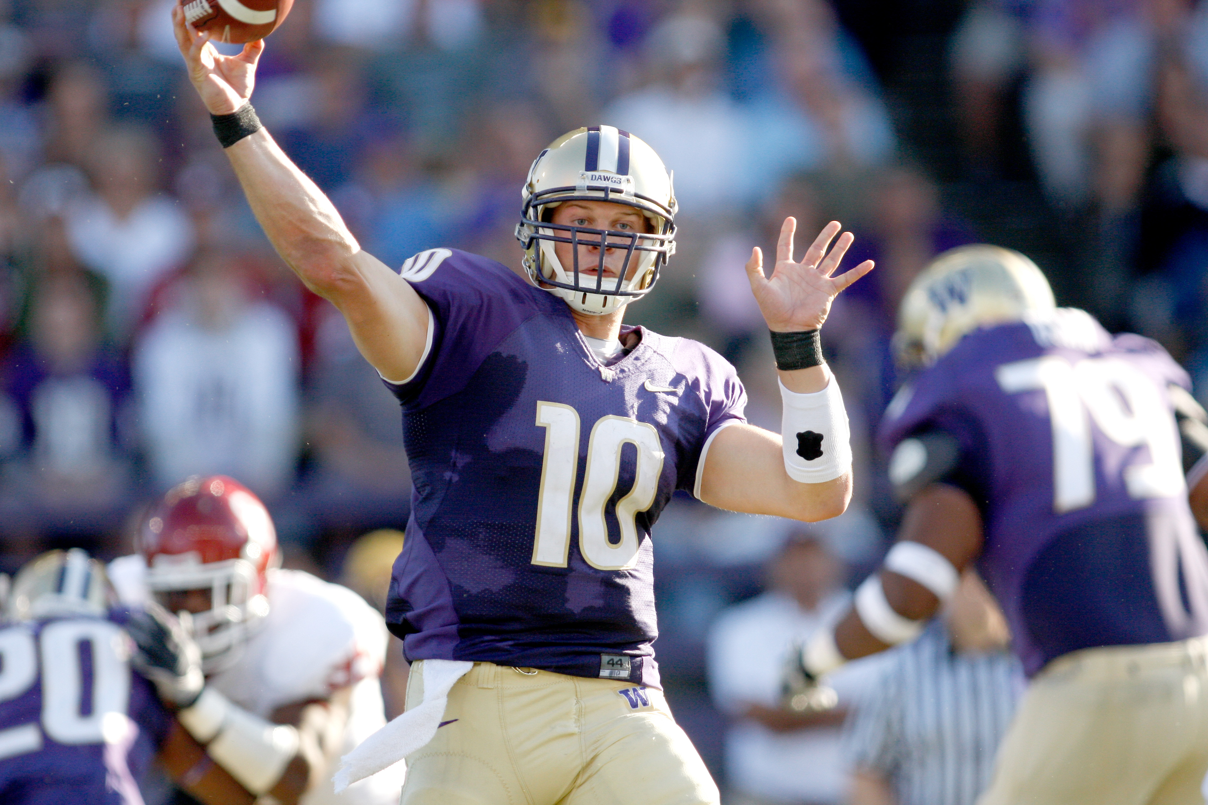 Photo of Washington Huskies quarterback Jake Locker during a game against the Oklahoma Sooners on Sept. 13, 2008 at Husky Stadium in Seattle, Wash.